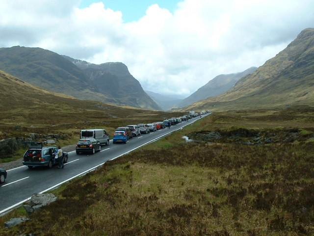 Traffic Jam on the A82. haven't moved for 20 minutes, its time for a walk.